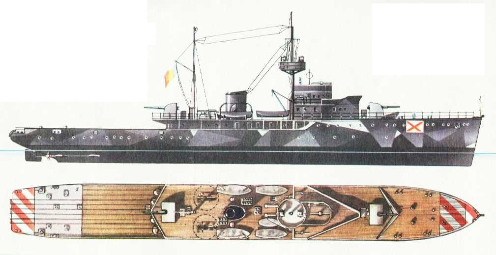 Color diagram of the Romanian minelayer Amiral Murgescu, featuring the gun shields that were removed after her first few weeks of service